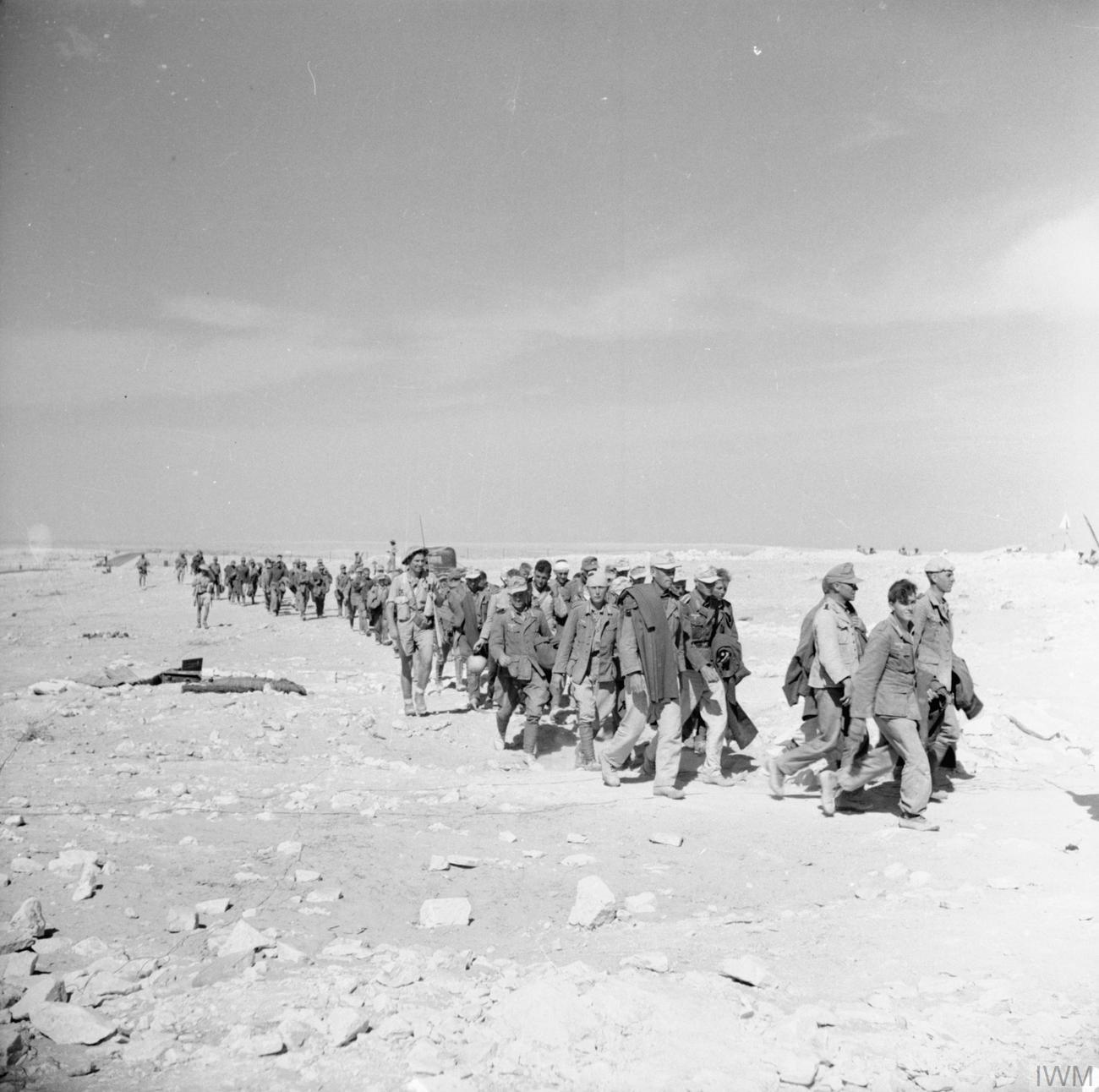 The Campaign in North Africa 1940-1943 El Alamein 1942: Some of the first prisoners to be brought in from the battle. They include Germans of the 90th Light Division and Italians captured by Australians and the Highland Division respectively.